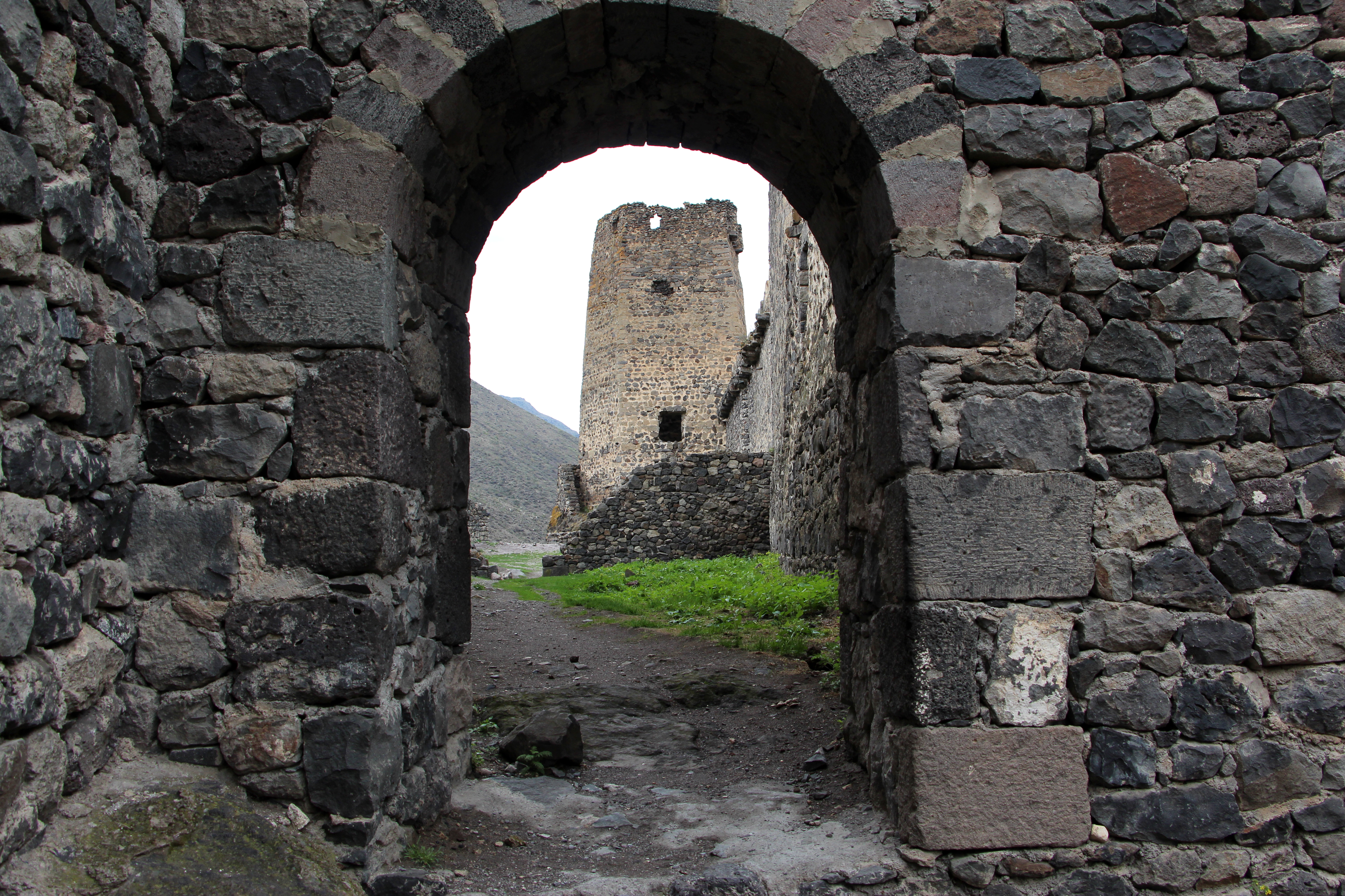 View to the east tower of Khertvisi fortress